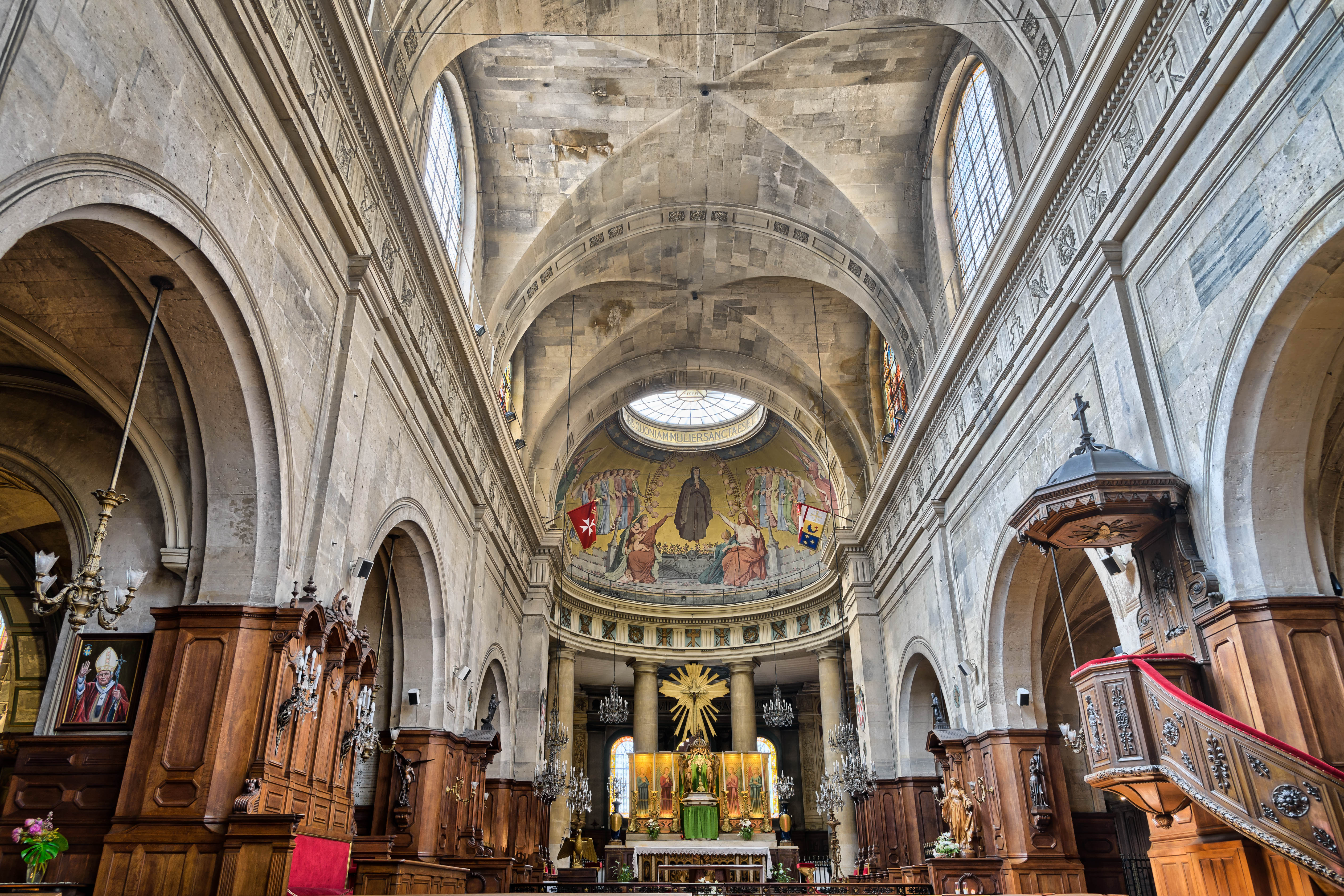 The church of Saint Elisabeth, Paris, France.